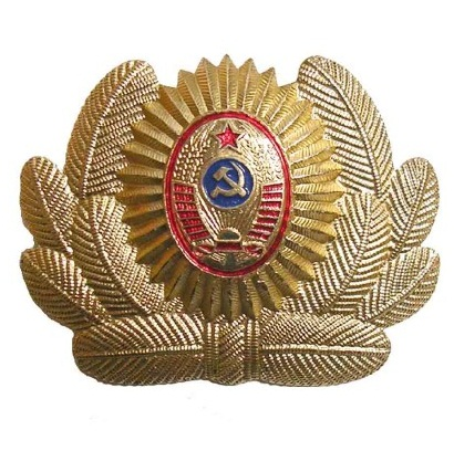 Cockade Of The Soviet Militia (Police USSR)